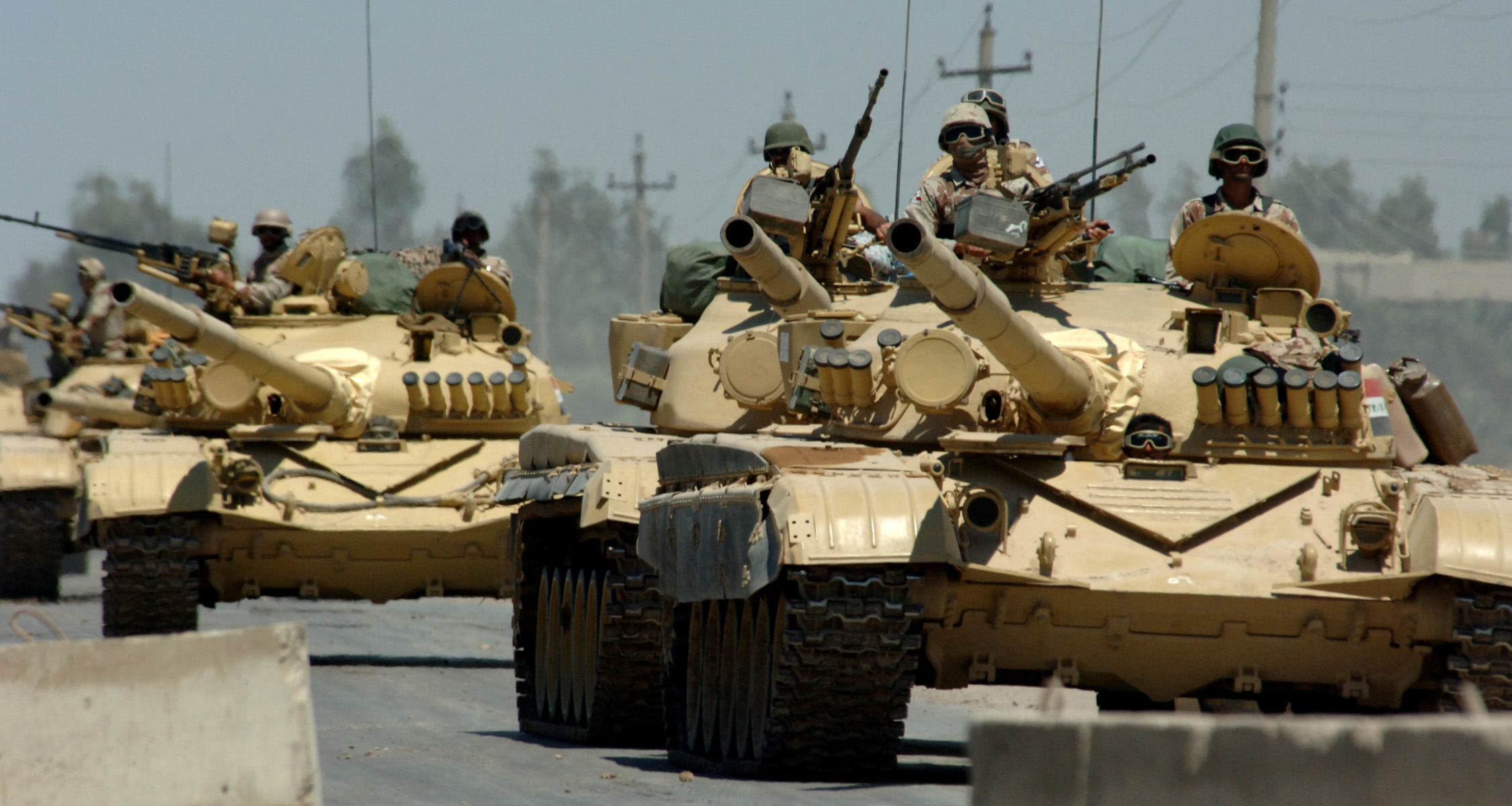 Iraqi tanks assigned to the Iraqi Army 9th Mechanized Division drive through a checkpoint near Forward Operating Base Camp Taji, Iraq.